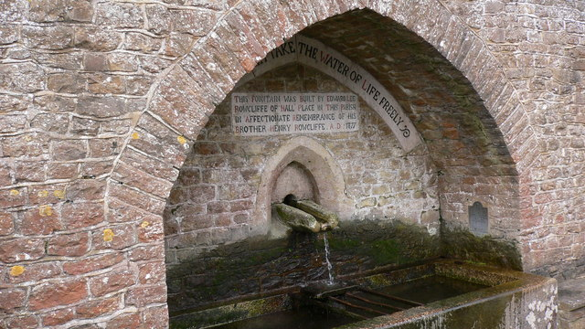 "Whosoever will let him take the water of life freely". This is the inscription on the fountain at Hascombe built in 1877 by Edward Rowcliffe in remembrance of his brother Henry. The plaque inset into the wall on the right one hundred years later was presented by Anthony Rowcliffe 1180951.